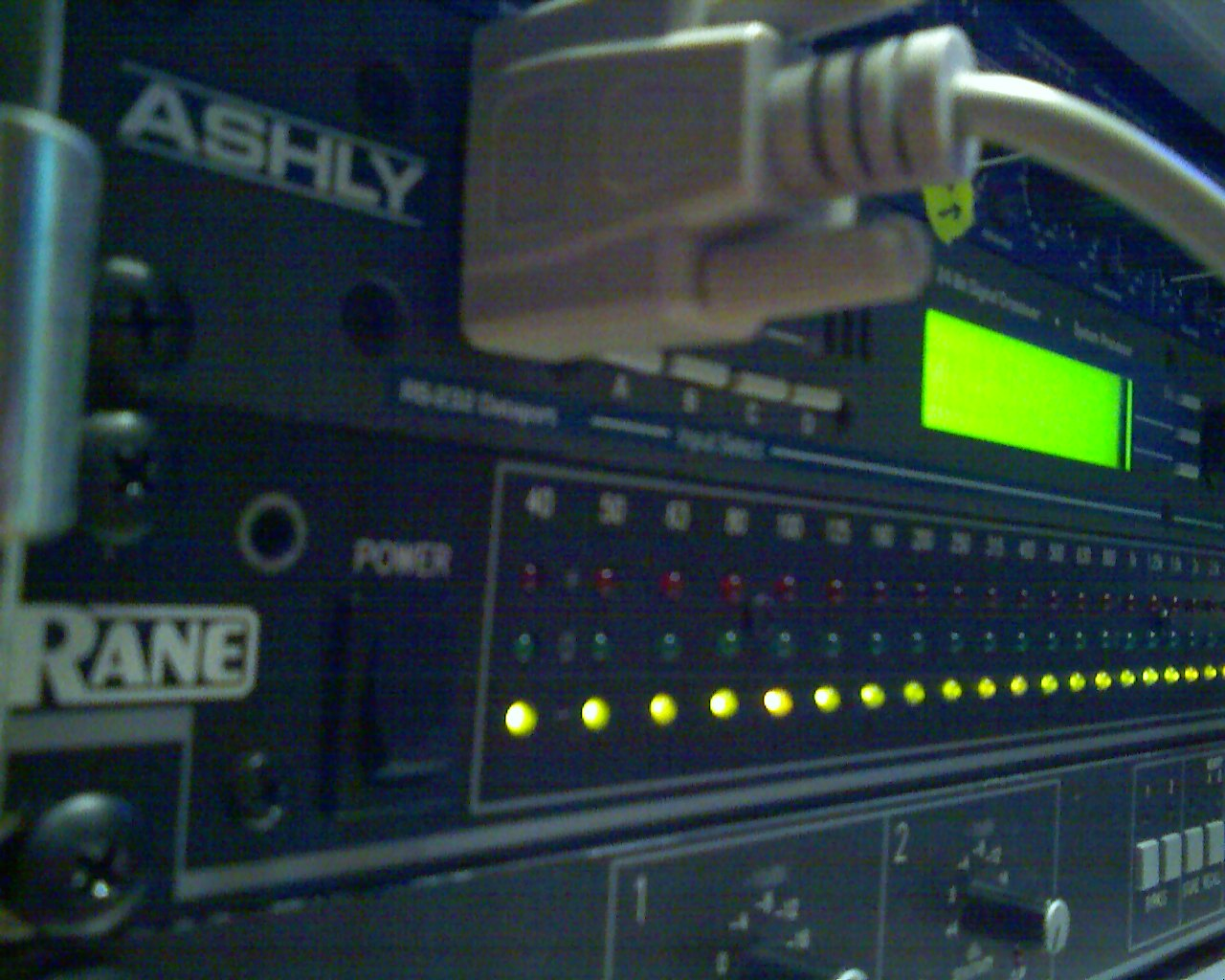 Ashly Protea 4.24C (with RS-232 connection) and Rane RA 27 real time sound analyzer Ashly Protea 4.24C 4x8 Speaker Processors Rane RA 27 Realtime Analyzer